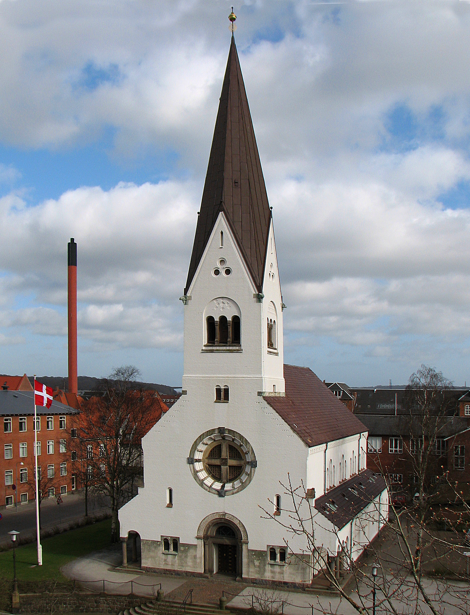 Vejle vor Frelsers church in Vejle, Denmark